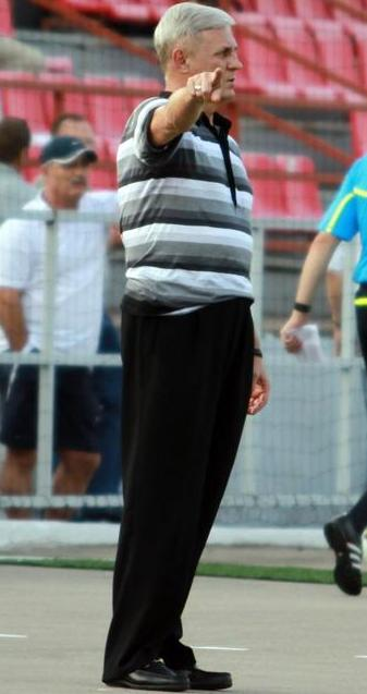 Vitaliy Shevchenko